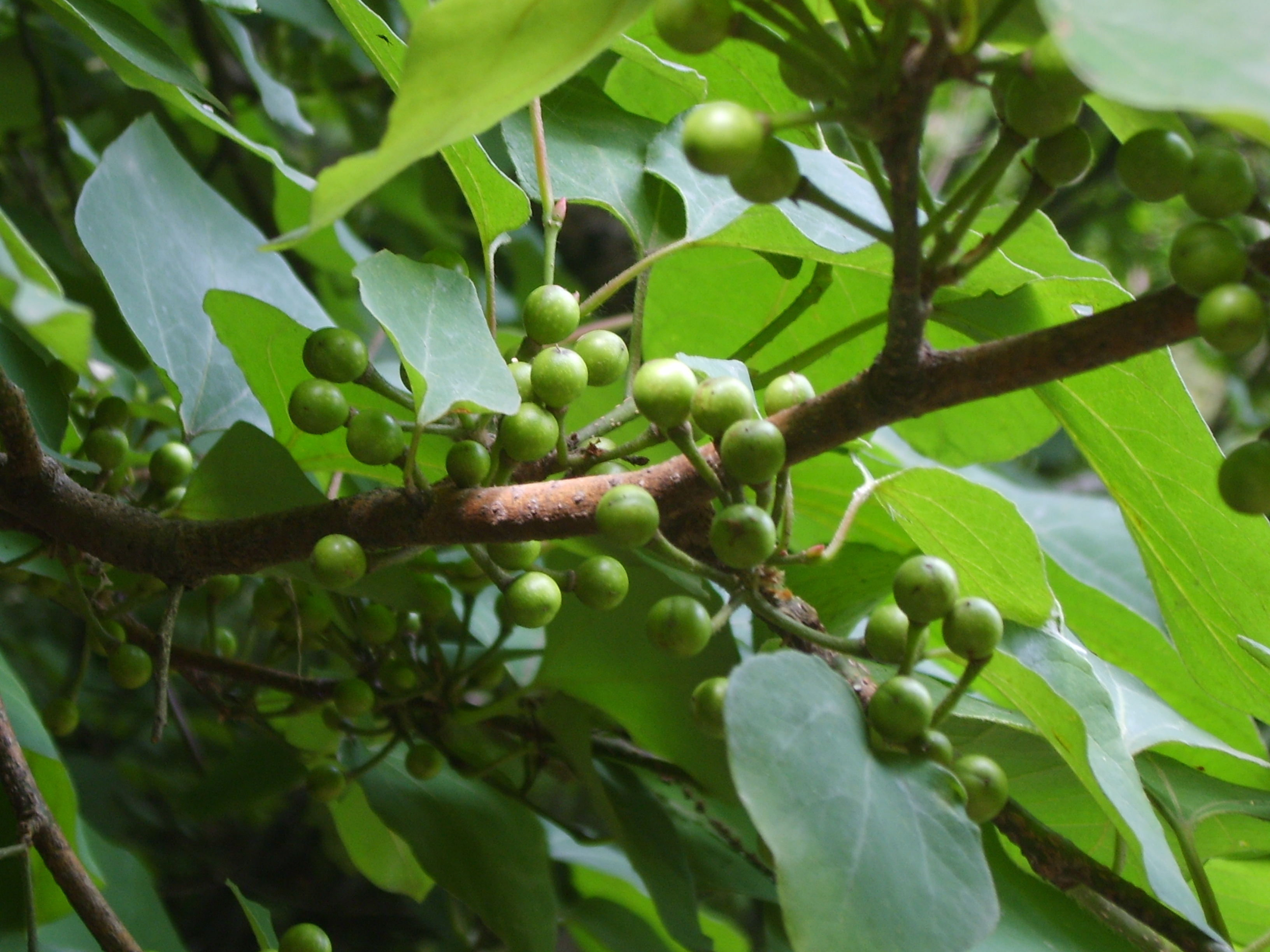 Lindera obtusiloba's Fruits in Bupyung, Korea